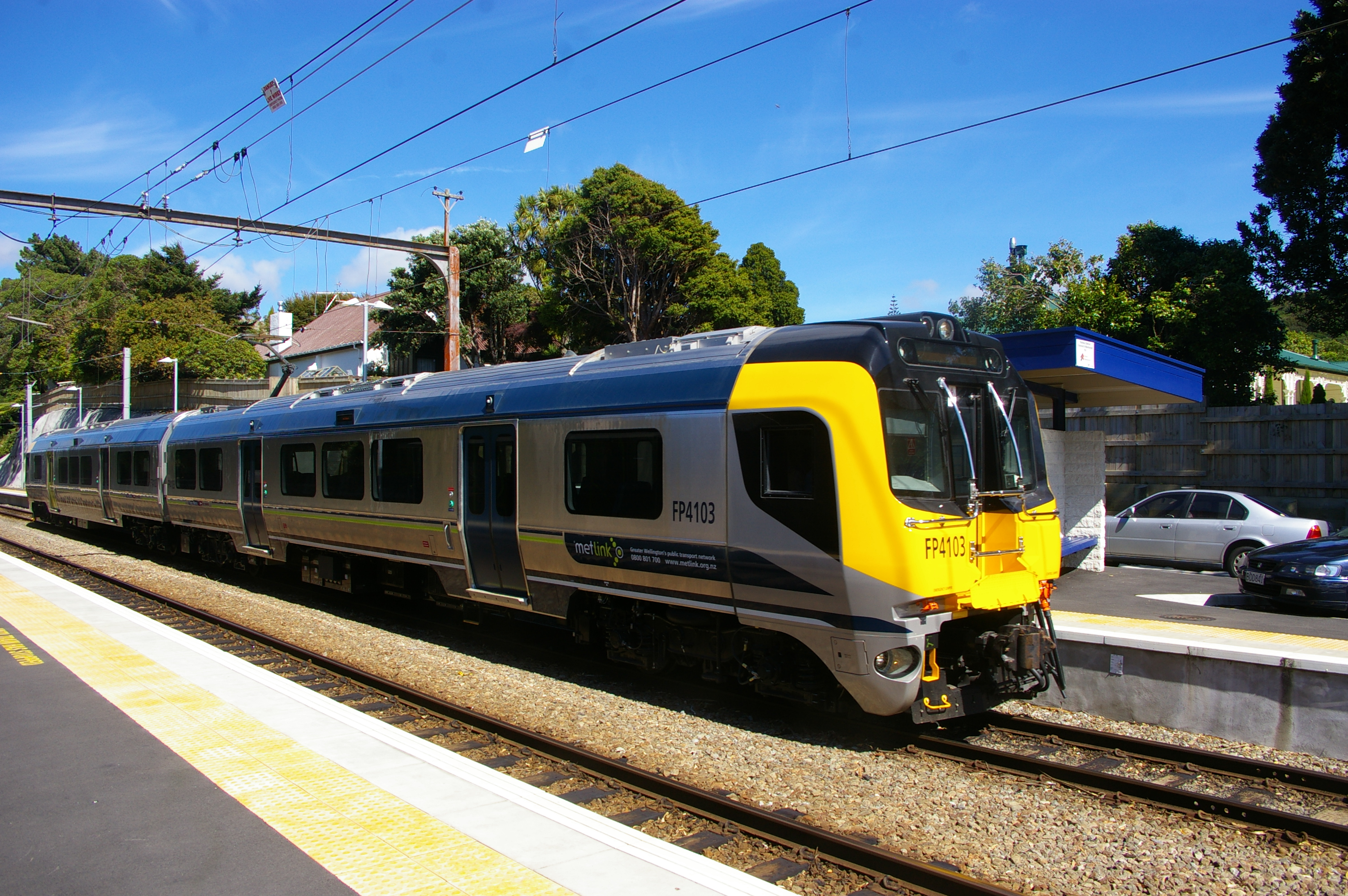 NZR FP Class 4103 at Khandallah Station